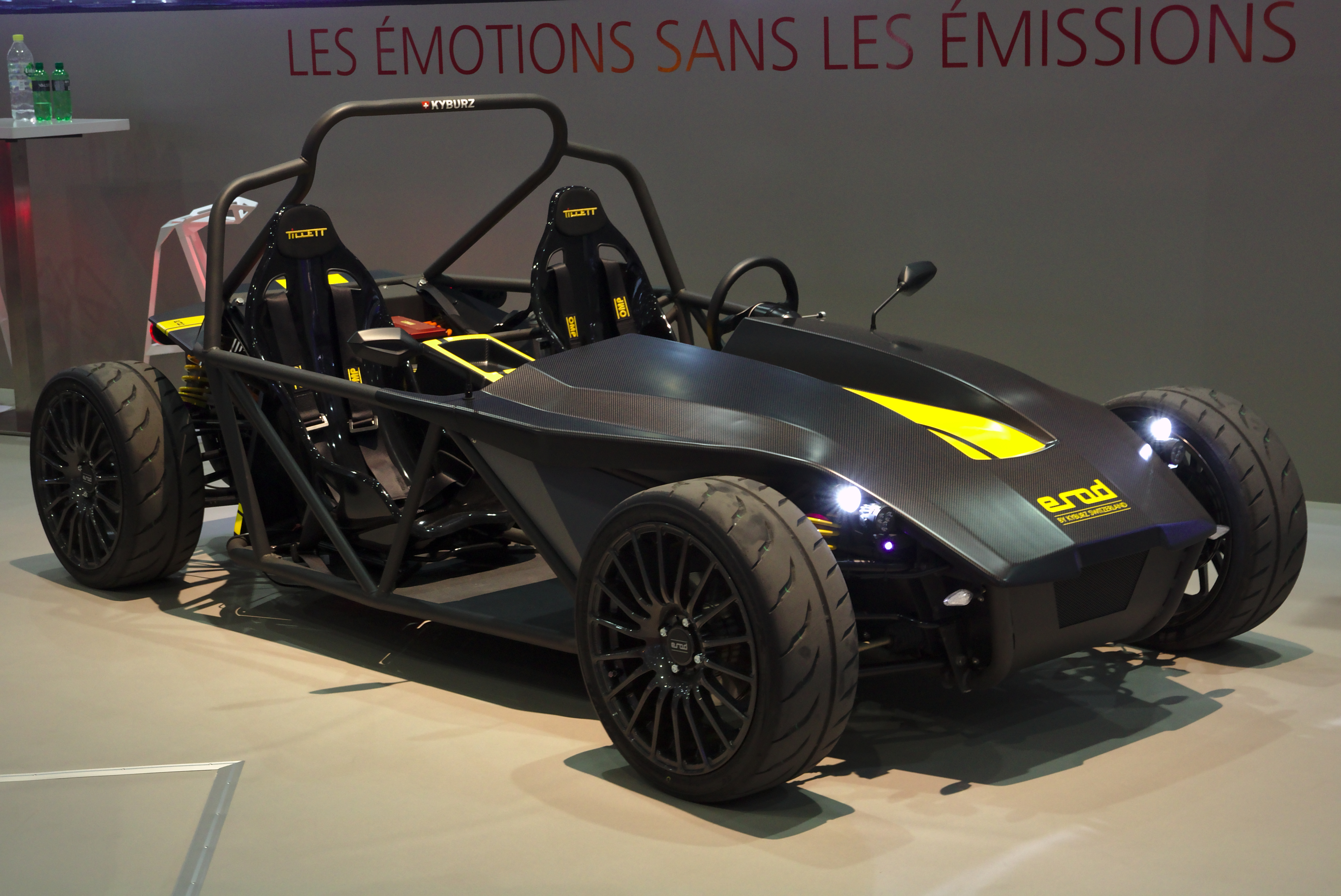 Kyburz eRod Fun at Geneva Motor Show 2019